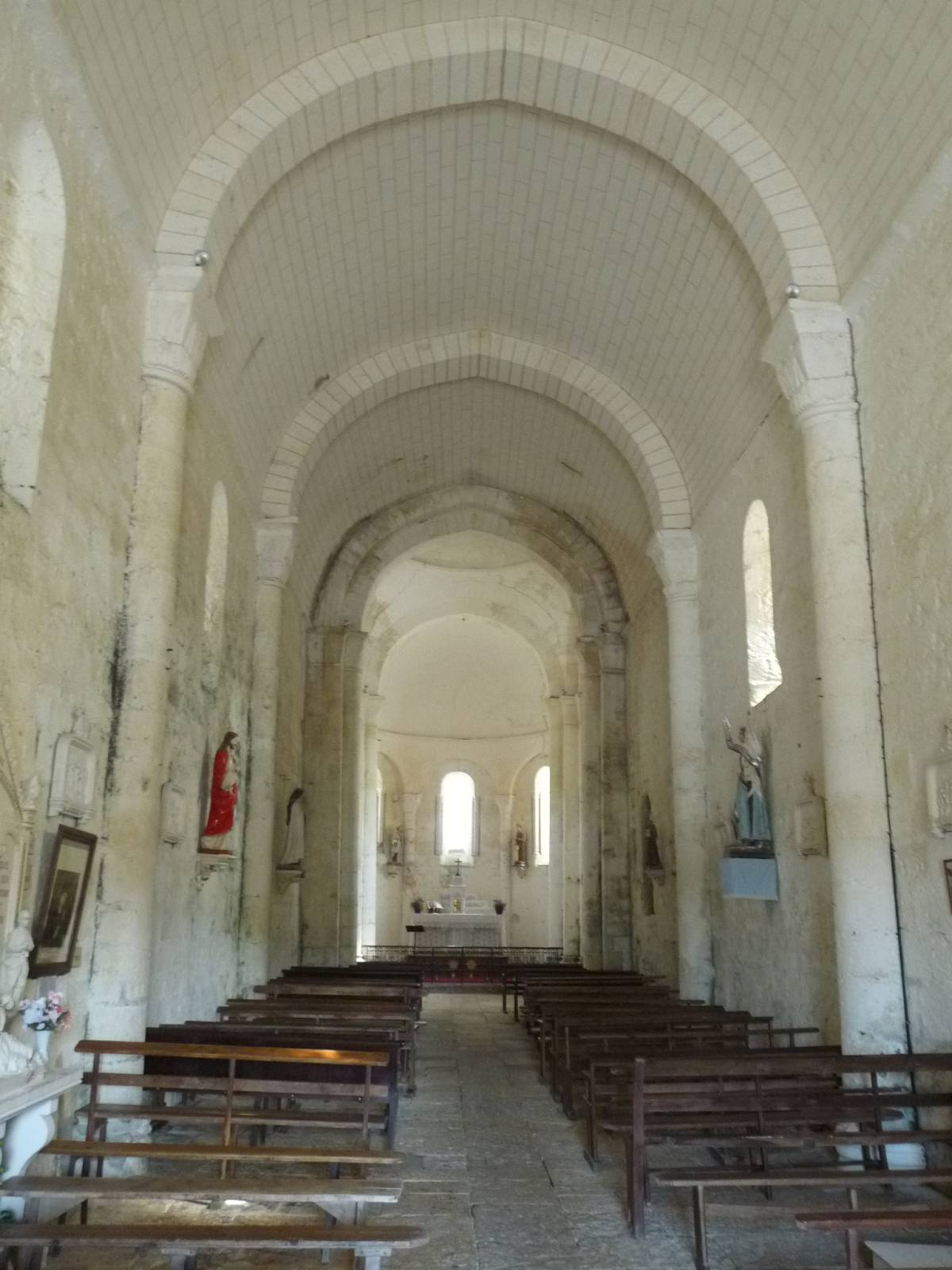 church of Claix, Charente, SW France